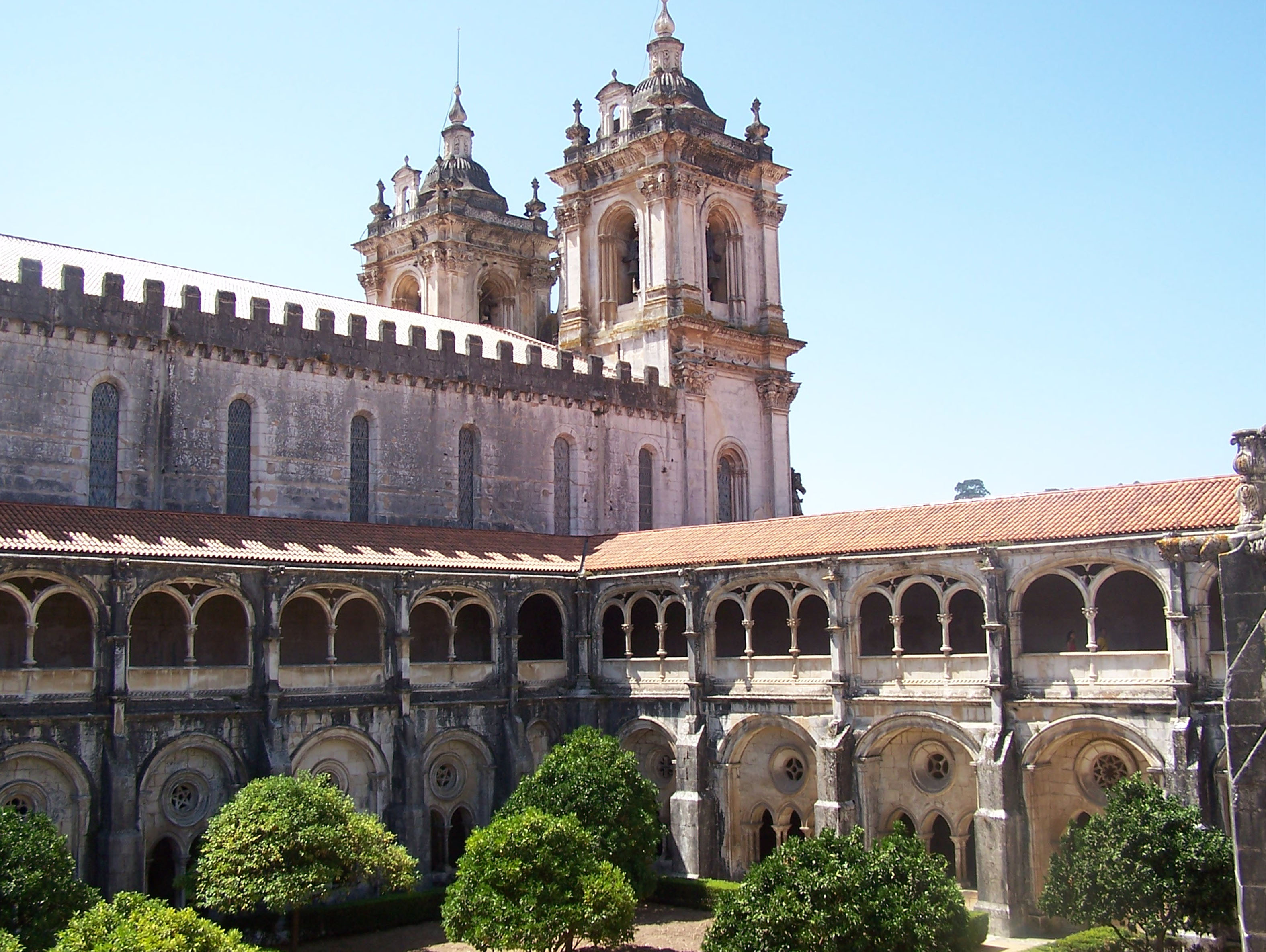 Cloister of the church of Alcobaça Monastery, Portugal